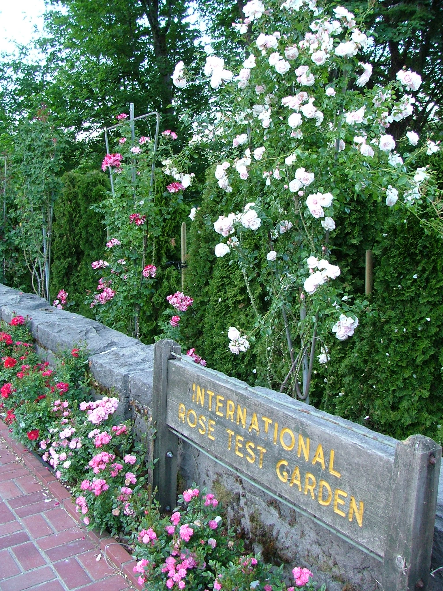 A sign in the International Rose Test Garden in Portland, Oregon